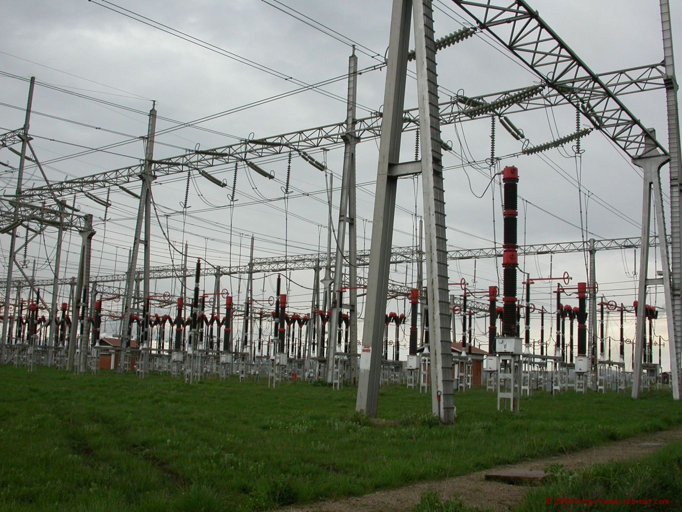 Pristina, 220/110 kV Main Substation Kosovo